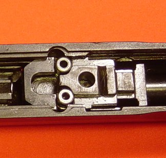 CZ-52 roller-locked pistol beginning the unlock cycle